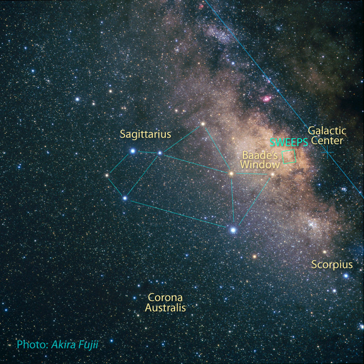 The SWEEPS target area is in the Sagittarius constellation, toward the center of the Milky Way galaxy. The target area is a rare transparent window to the distant central bulge stars located approximately 27,000 light-years away from Earth. The location of the SWEEPS area is indicated on this Milky Way image in blue.